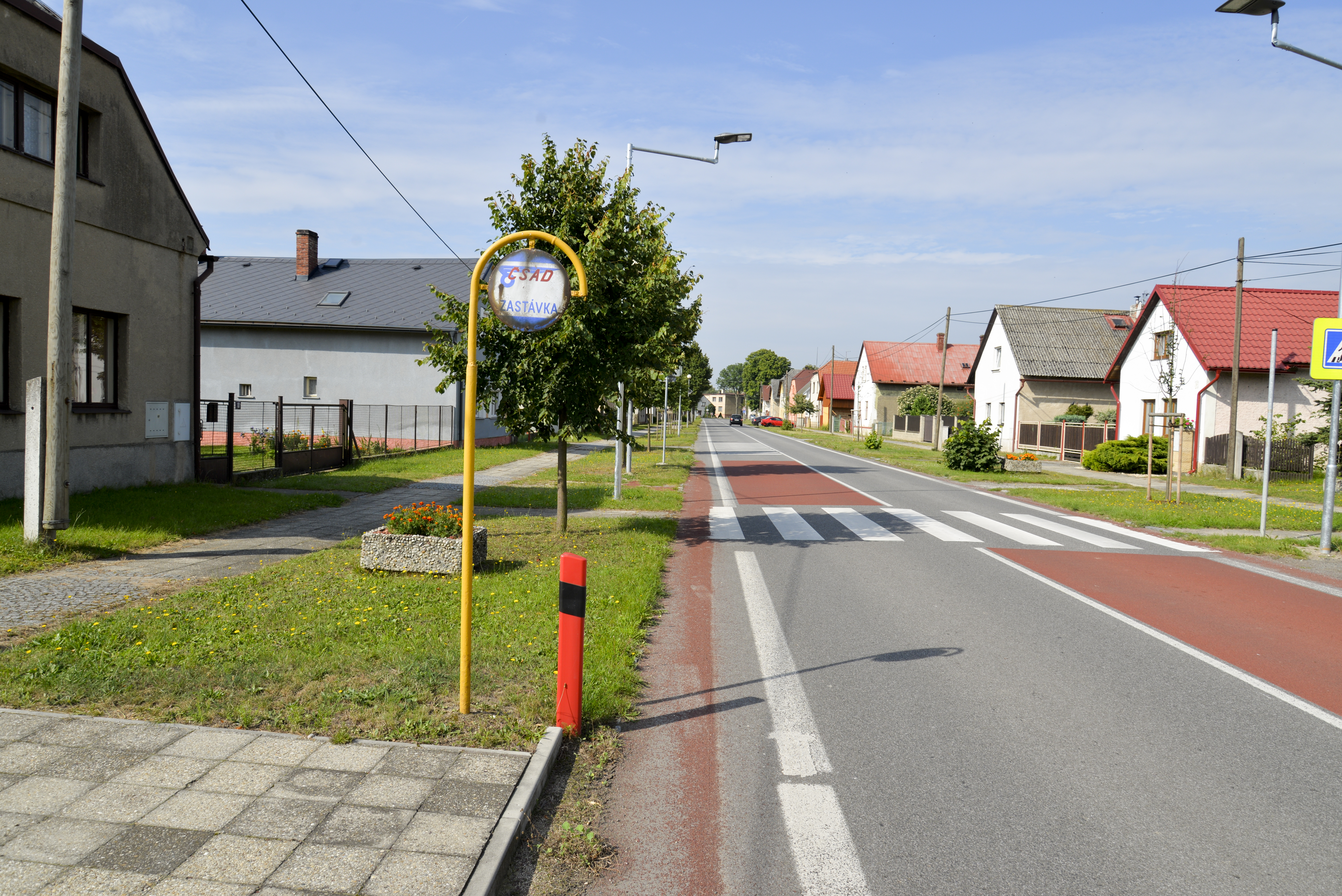 Buda - village in Mladá Boleslav District; part of city Bakov nad Jizerou, main road to Bakov nad Jizerou